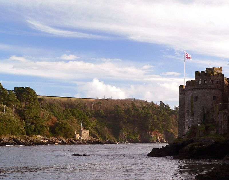 Dartmouth Castle and Kingswear Castle, guarding the mouth of the Dart